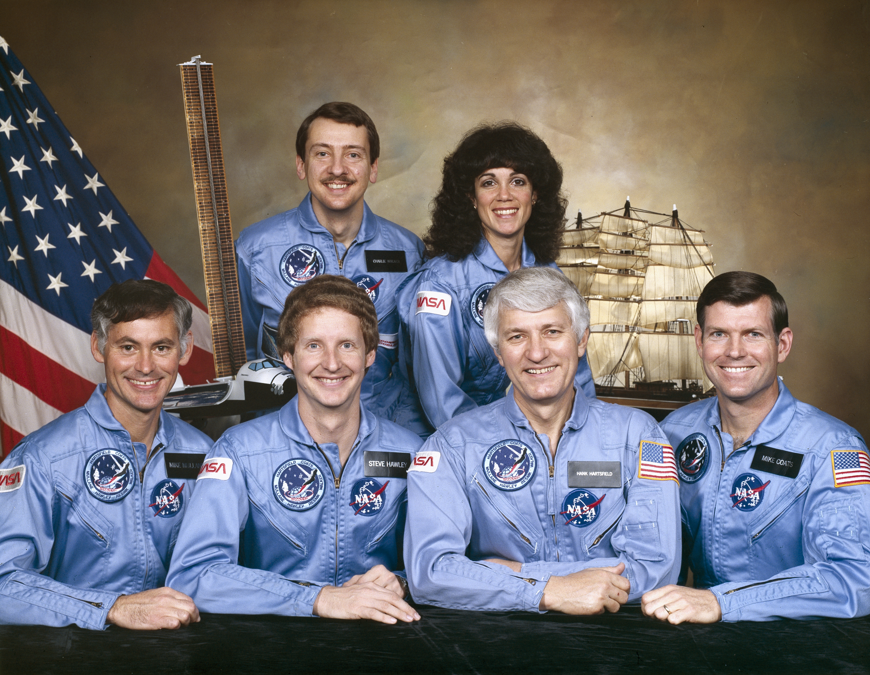 The crew assigned to the STS-41D mission included (seated left to right) Richard M. (Mike) Mullane, mission specialist; Steven A. Hawley, mission specialist; Henry W. Hartsfield, commander; and Michael L. (Mike) Coats, pilot. Standing in the rear are Charles D. Walker, payload specialist; and Judith A. (Judy) Resnik, mission specialist. Launched aboard the Space Shuttle Discovery August 30, 1984 at 8:41:50 am (EDT), the STS-41D mission deployed three satellites: the Satellite Business System SBS-D; the SYCOM IV-2 (also known as LEASAT-2); and the TELSTAR.